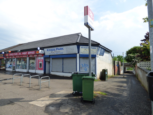 Shops on King's Park Avenue